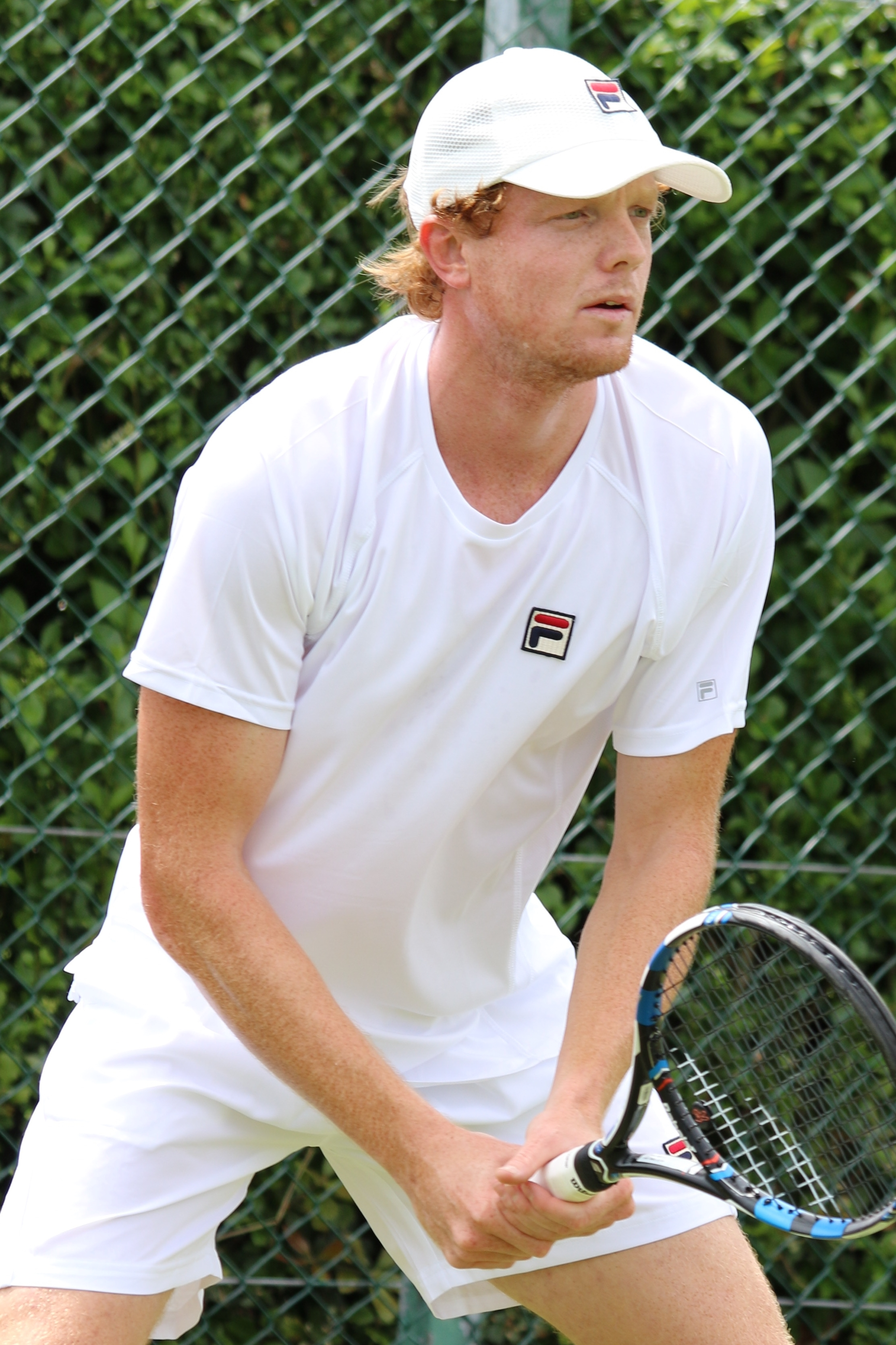 Barton WMQ16 (3)